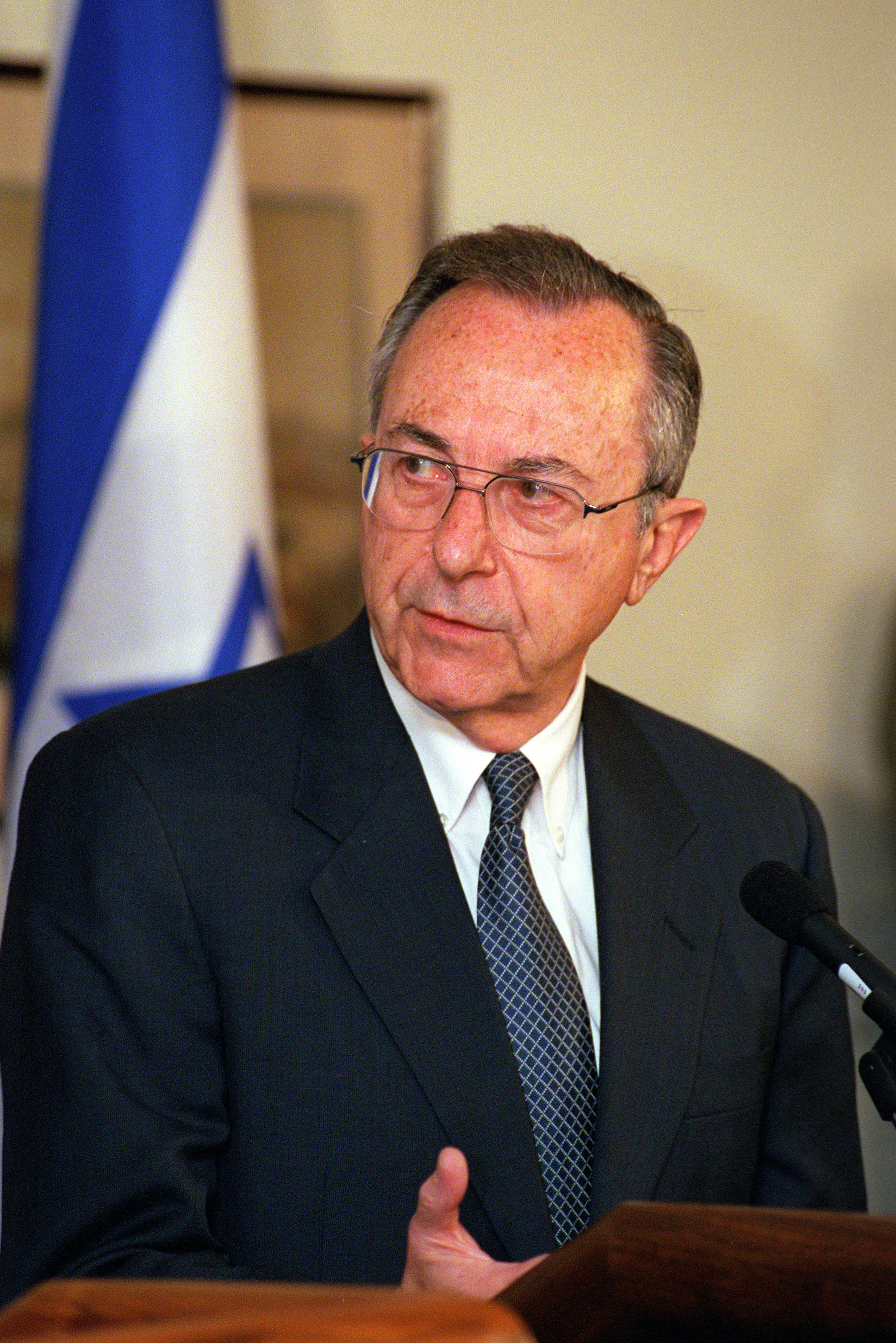 Israeli Minister of Defense Moshe Arens answers a reporter's question during a joint press conference with Secretary of Defense William S. Cohen in the Pentagon on April 27, 1999.